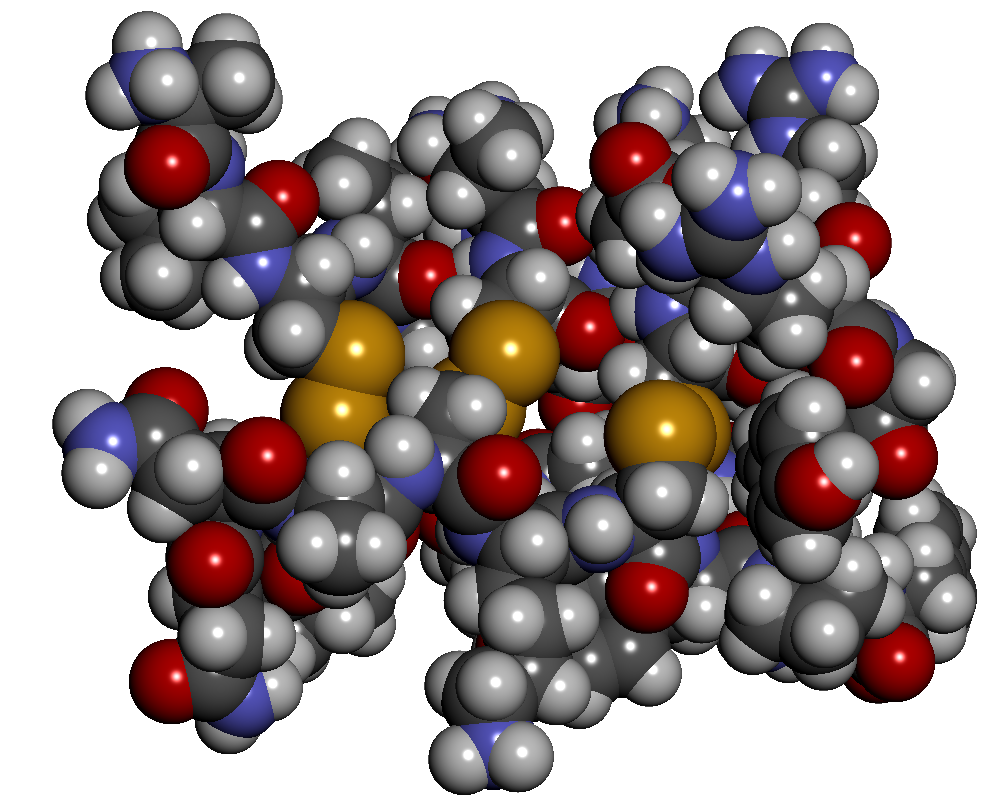 Chemical structure of Chemical structure of cobatoxin 1. Created using Accerlrys Discovery Studio 3.0. Based on data published in Biochem. J. (2004) 377 (37–49)